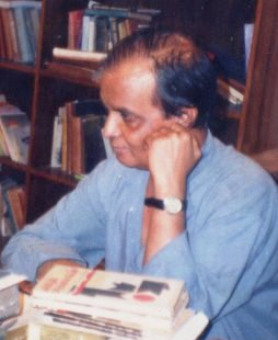 Bengali Intellectuals, Prof. Abdur Razzak, and Ahmed Sofa